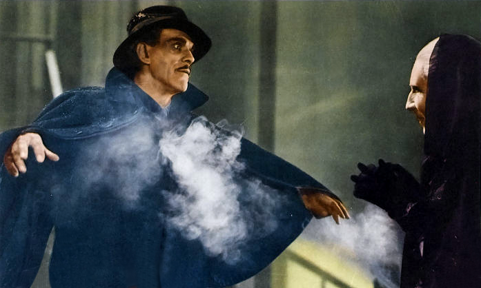 Cropped and edited lobby card for the 1936 film The Invisible Ray featuring Boris Karloff. This image is assumed to be in the public domain, as no copyright notice is in evidence.